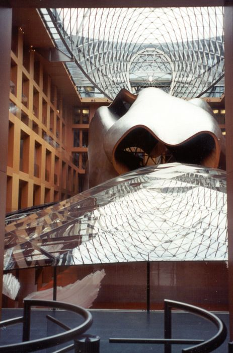 DG bank interior photo, scanned from original photo taken by me in 2002. This version is hereby released under multiple licenses, as shown below. k.lee 22:37, 16 Jul 2004 (UTC)